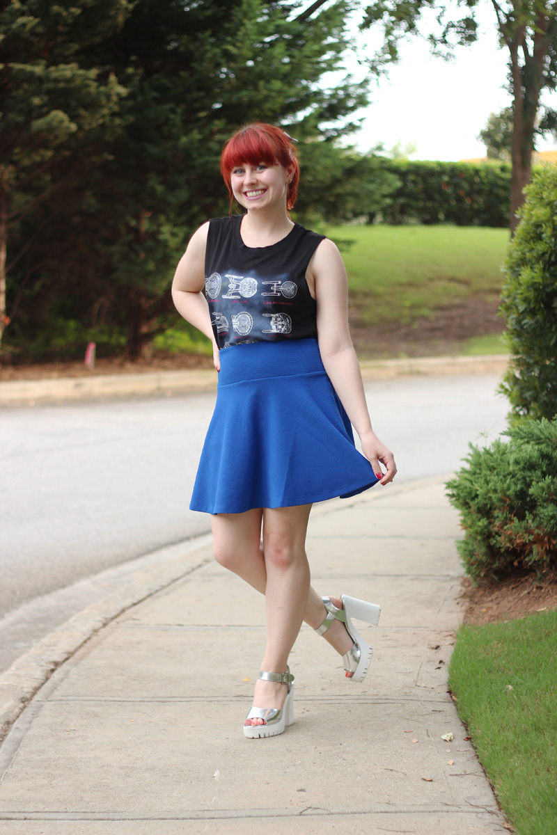 Blue Textured Skater Skirt, Star Trek Graphic Tank Top, and Silver Chunky Heels Model